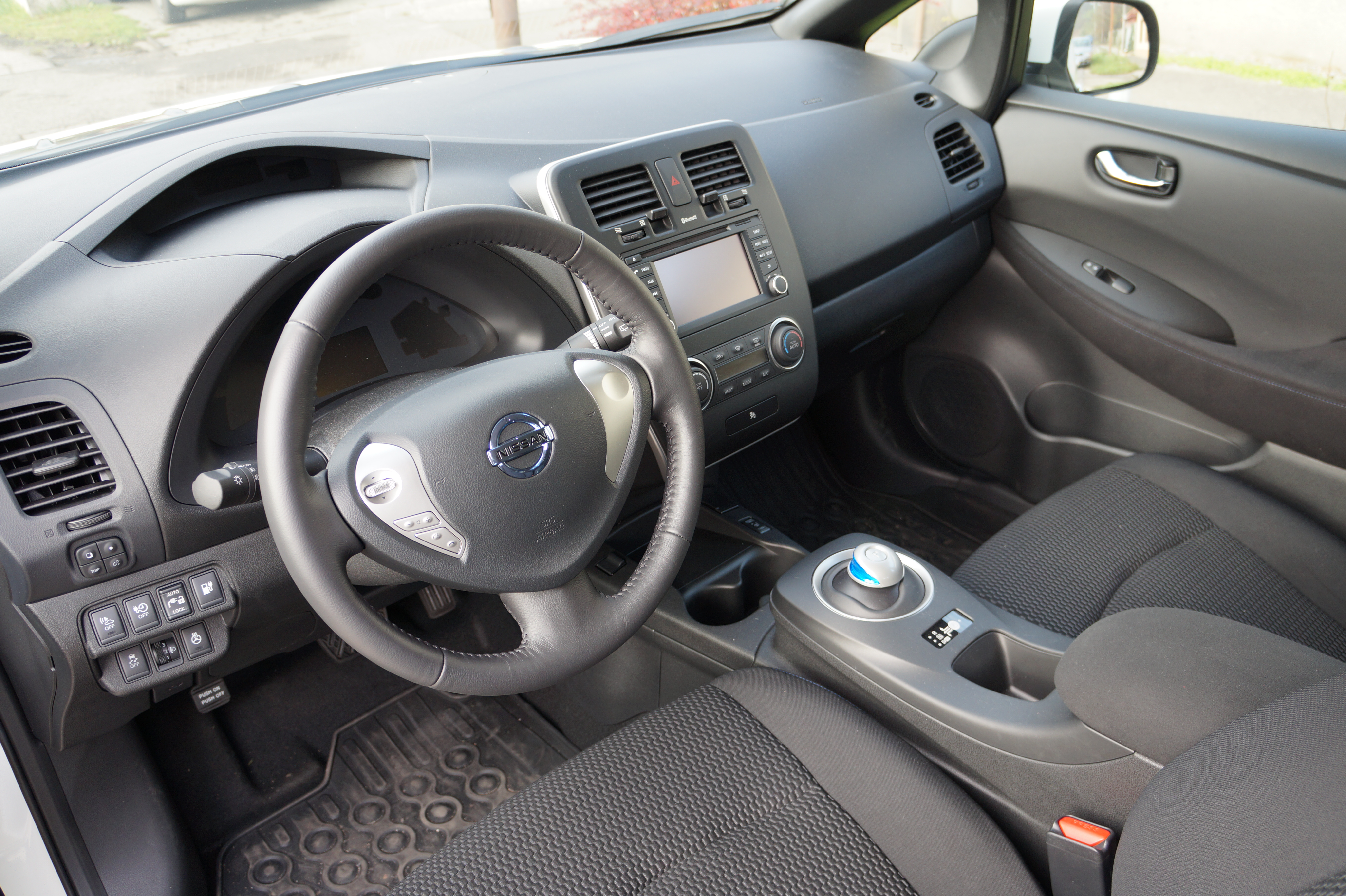 Interior photo of a 2013 Nissan Leaf electric car, in Slovakia